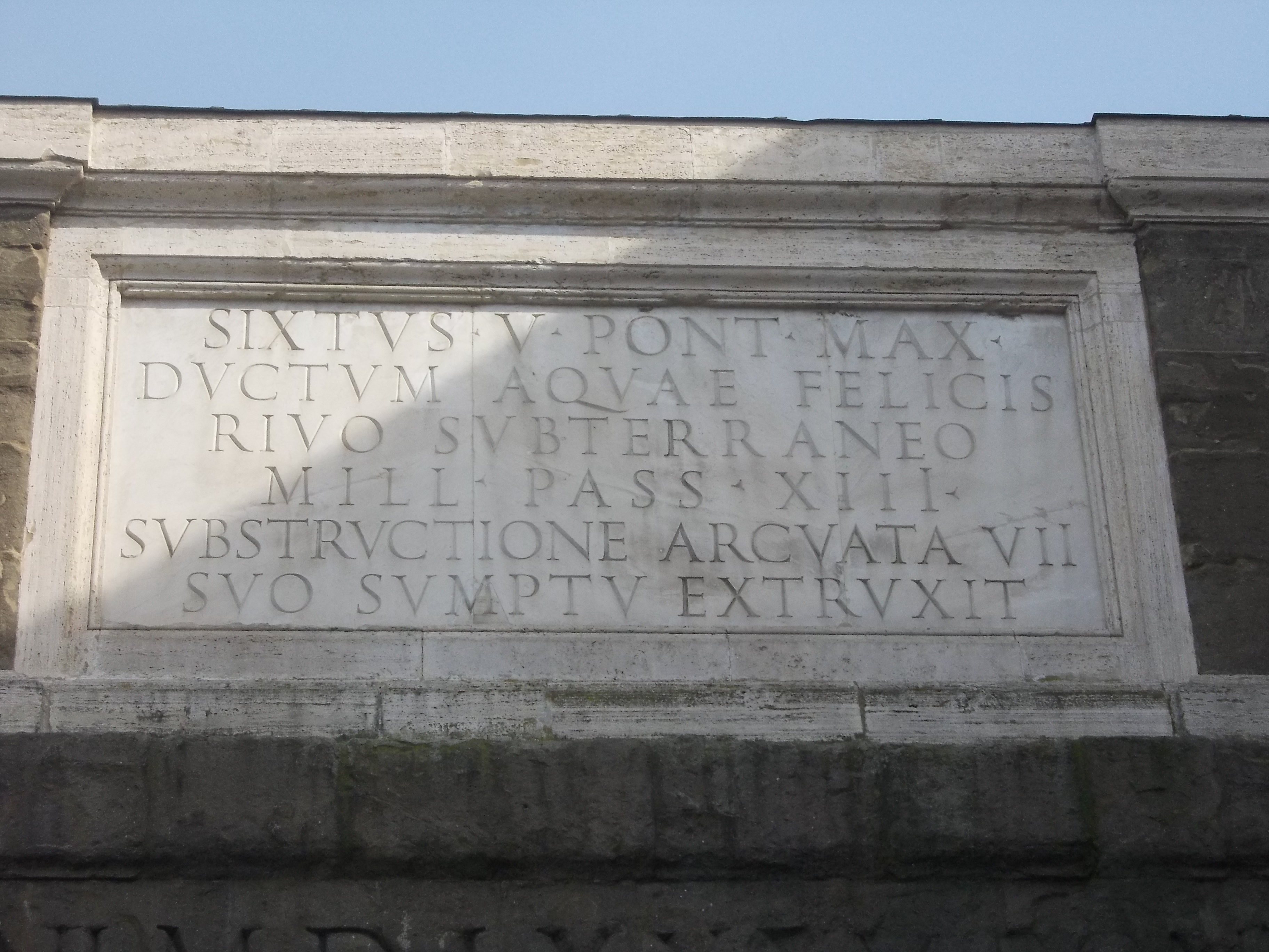 Arch of Sisto the fifth in Rome, plate and latin inscription